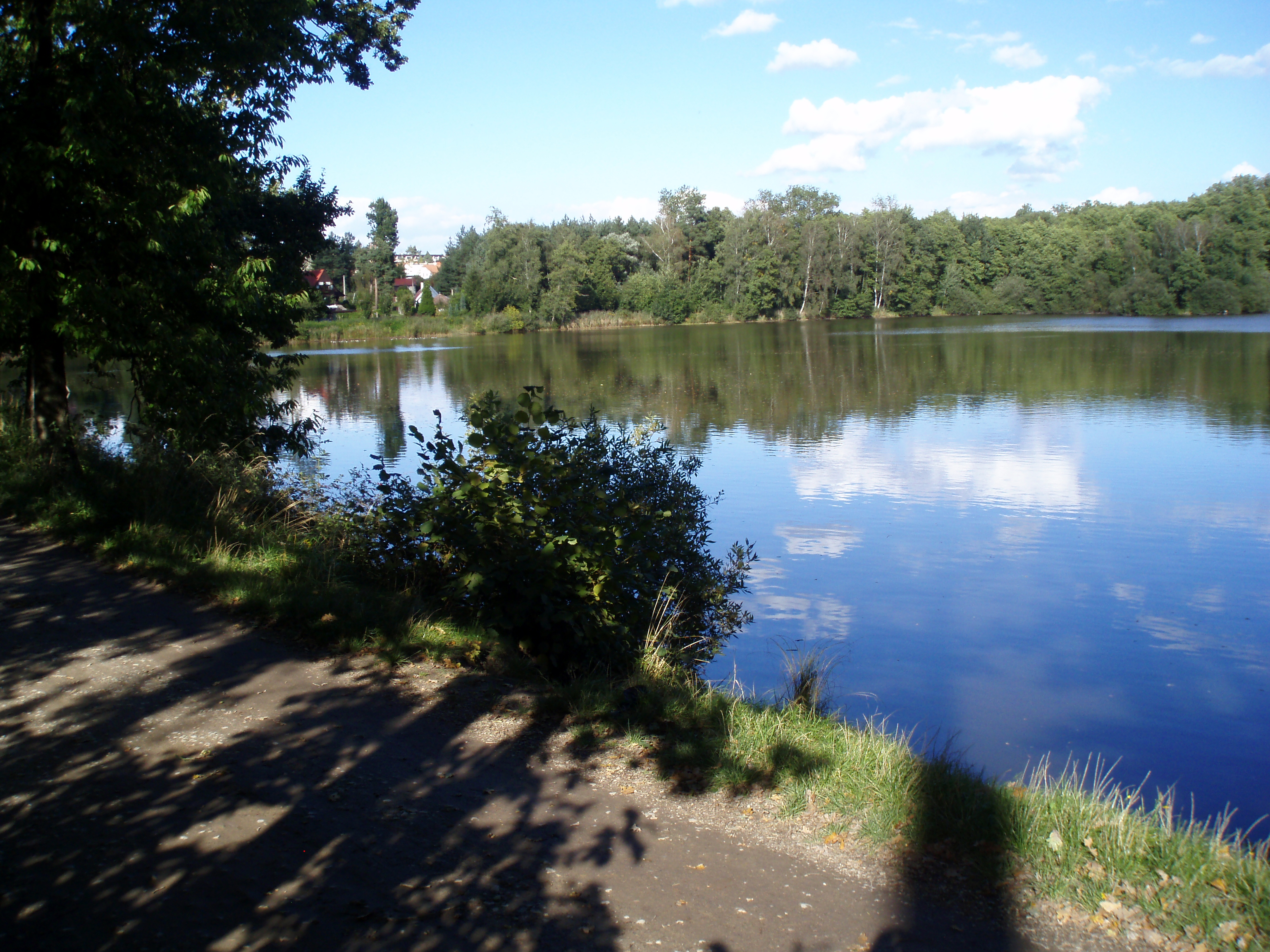 Pond Cikán (Hradec Králové, Czechia)